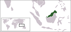 The location of the proposed North Borneo Federation, encompassing the territories of Sabah, Sarawak and Brunei.